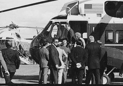 26-Sep-1971 PRESIDENT NIXON'S VISIT TO RICHLAND, WASHINGTON